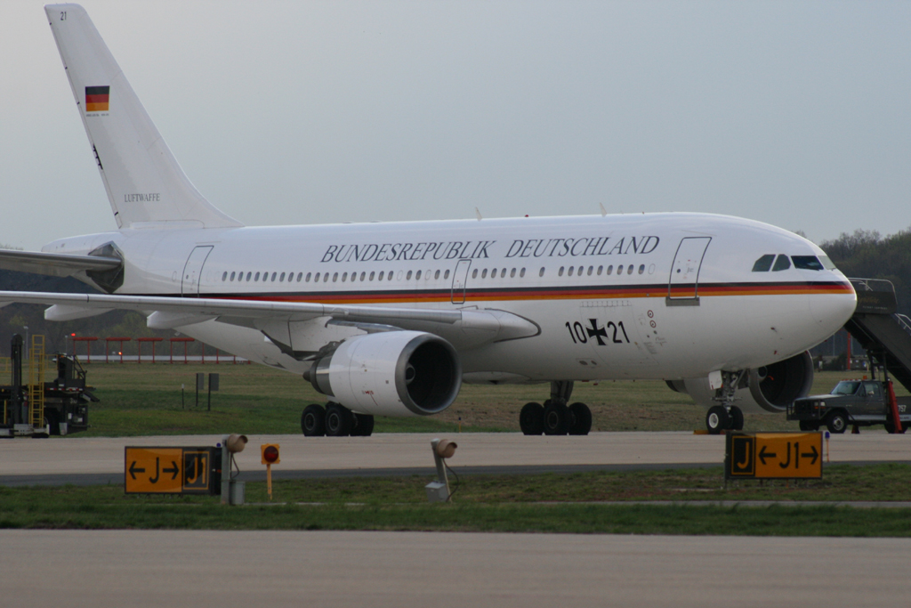 10+21 Airbus A310-304 VIP C/N: 498 (DDR-ABA → D-AOAA Interflug) “Konrad Adenauer” of the German Air Force's Flugbereitschaft